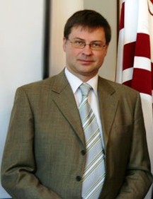 Photo of Prime Minister of Latvia, Valdis Dombrovskis